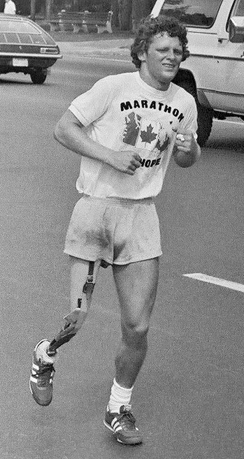 Photo of Terry Fox, Canadian cancer fund-raiser, during his 1980 "Marathon of Hope" fund-raising run across Canada. Photo taken July 12, 1980 in Toronto, Ontario, Canada by Jeremy Gilbert with his Praktika SLR 35 mm camera on Bloor Street East, near entrance to Castle Frank subway station, looking south-east towards Castle Frank Road as Fox heads west along Bloor Street.